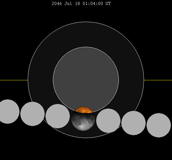 July 2046 lunar eclipse chart of moon's path through the earth's shadow. thumb